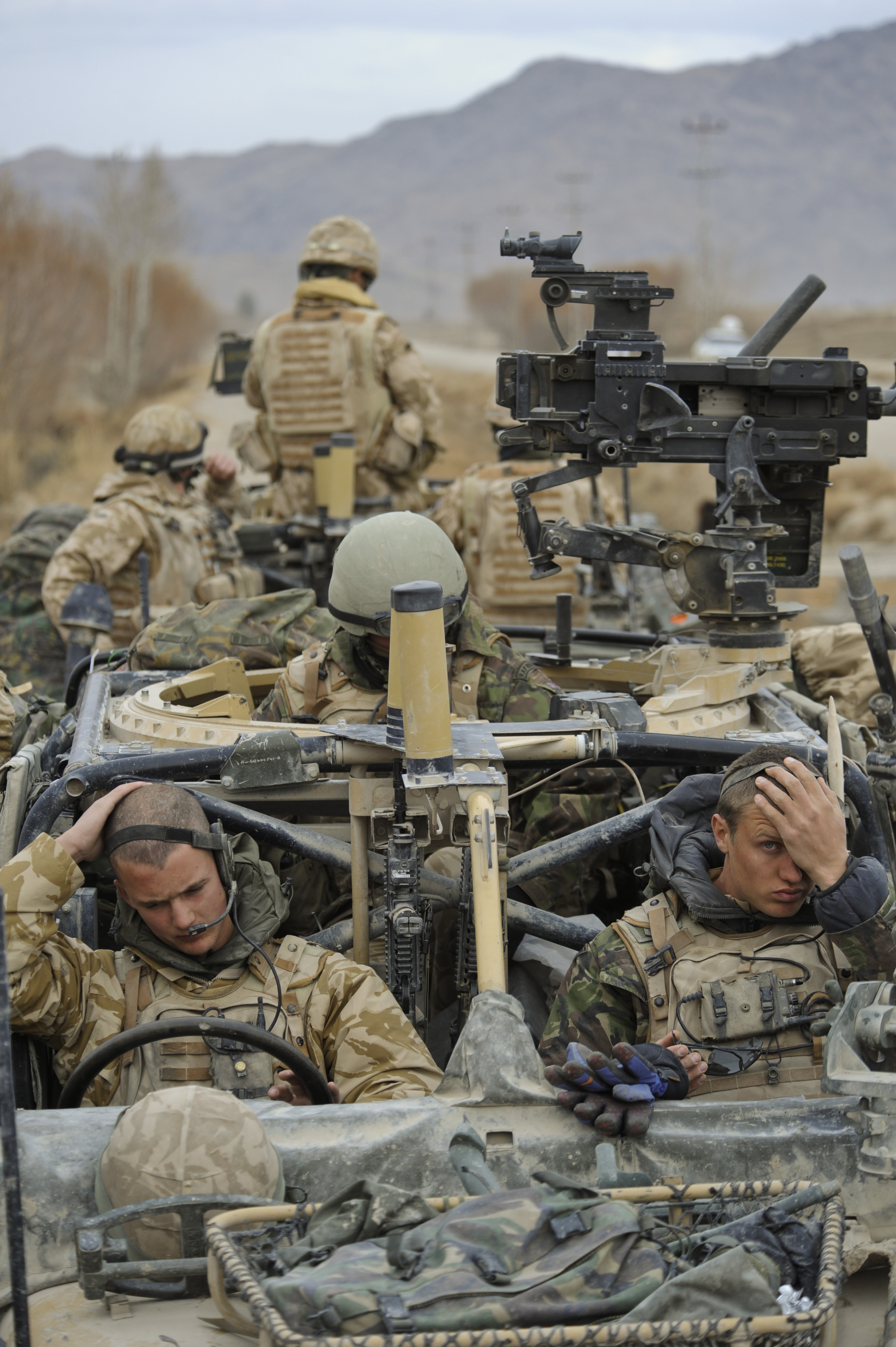 British soldiers from B Flight, 27 Squadron, Royal Air Force Regiment take a break whilst on a combat misson near Kandahar Airfield, Afghanistan, Jan. 2. (U.S. Air Force photo by Tech. Sgt. Efren Lopez/Released) Joint Combat Camera Afghanistan Date: 01.02.2010 Location: Kandahar Airfield, AF Related Photos